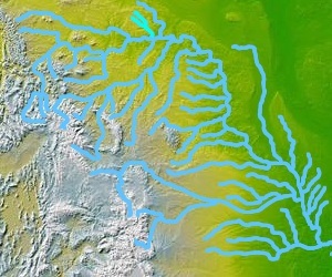 Poplar River in Montana ©2004 Matthew Trump